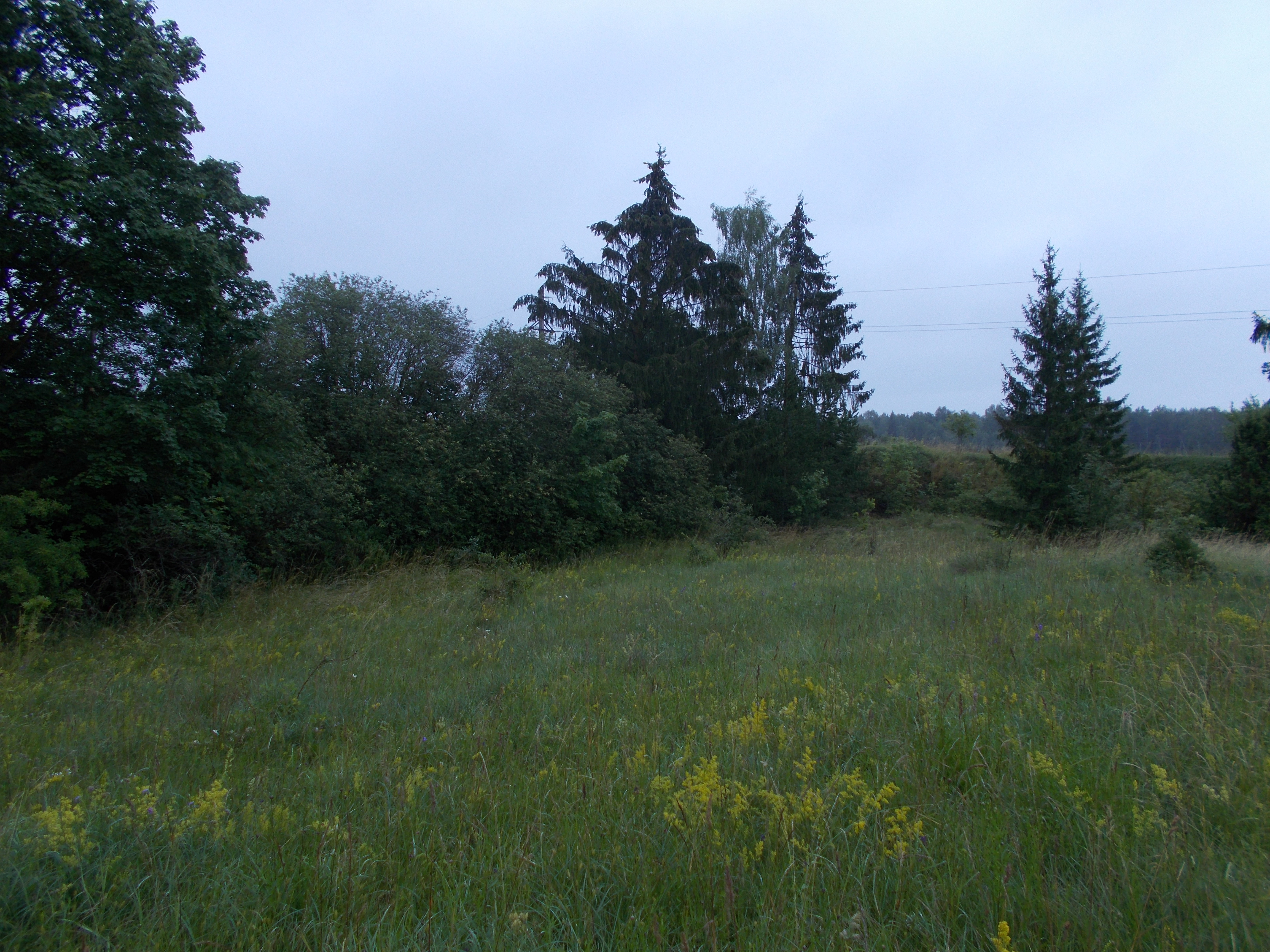 The overview of Rägavere Quarry in Piira village